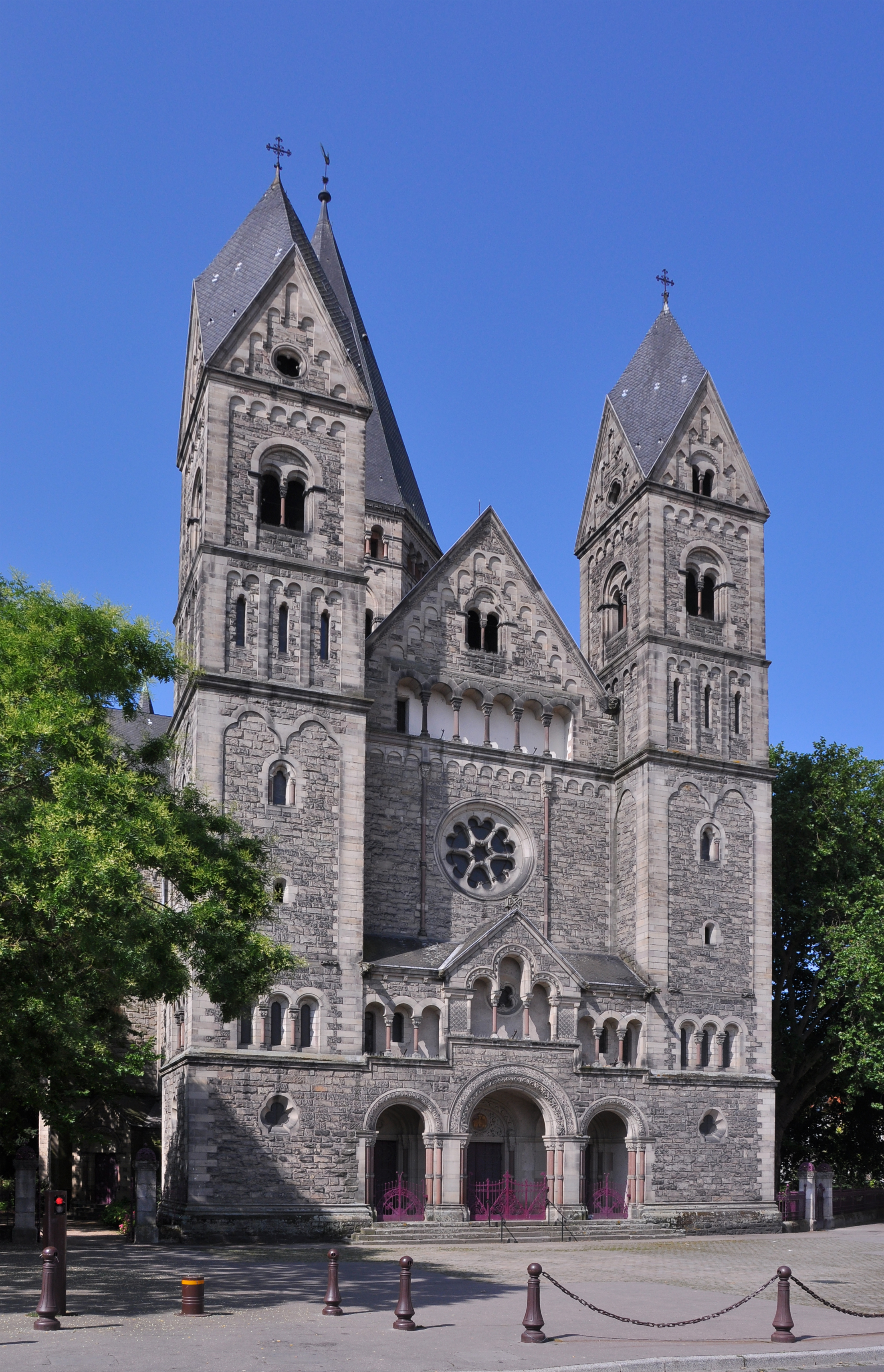 Metz (France): protestant church Temple Neuf, also called Église des Allemands, built in 1901-1904 during the German annexation of the département de la Moselle (1871-1918)